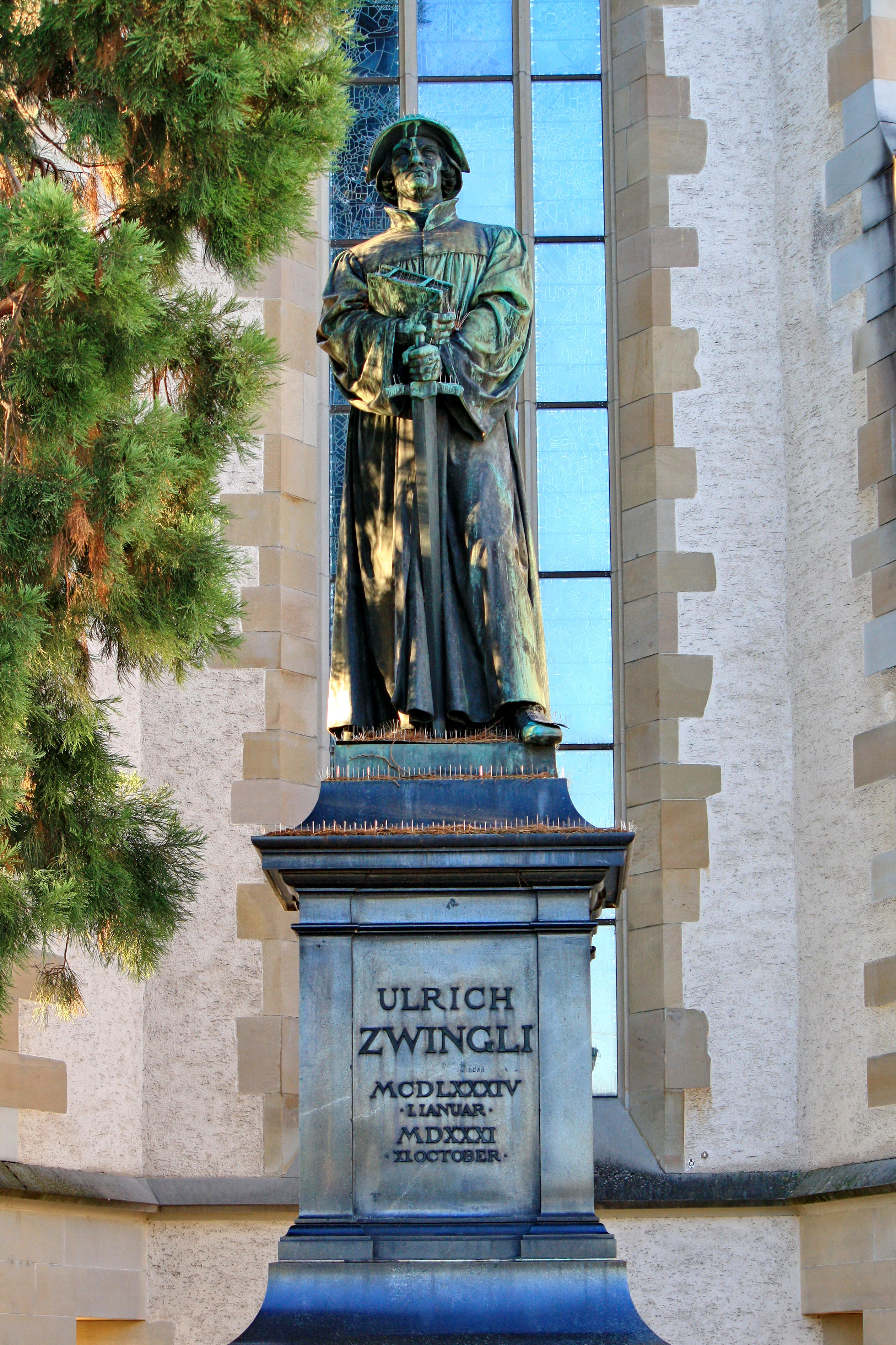 Ulrich Zwingli memorial on the southern side of Wasserkirche in Zürich (Switzerland)